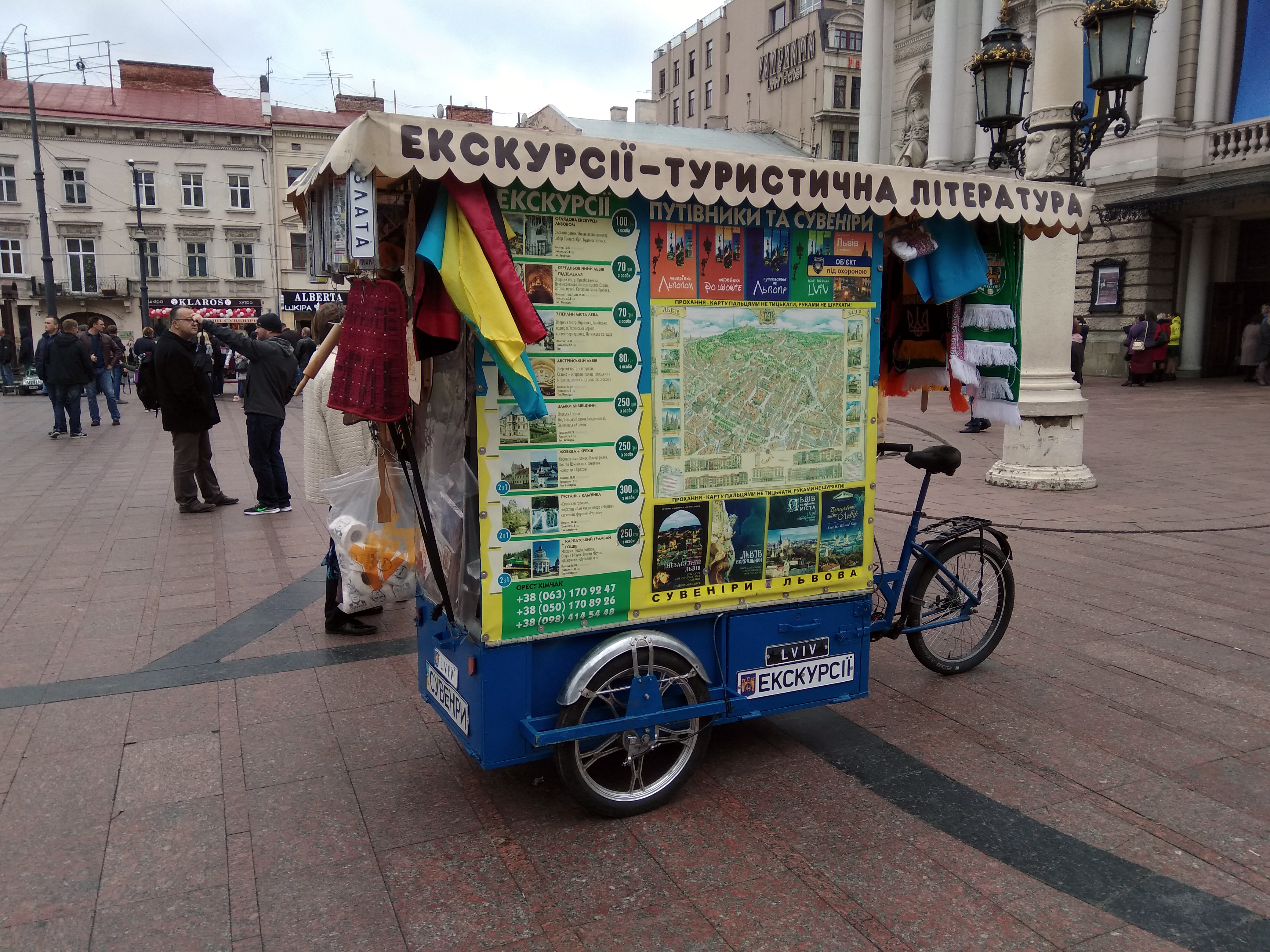 Souvenir selling bike in Lviv, Ukraine